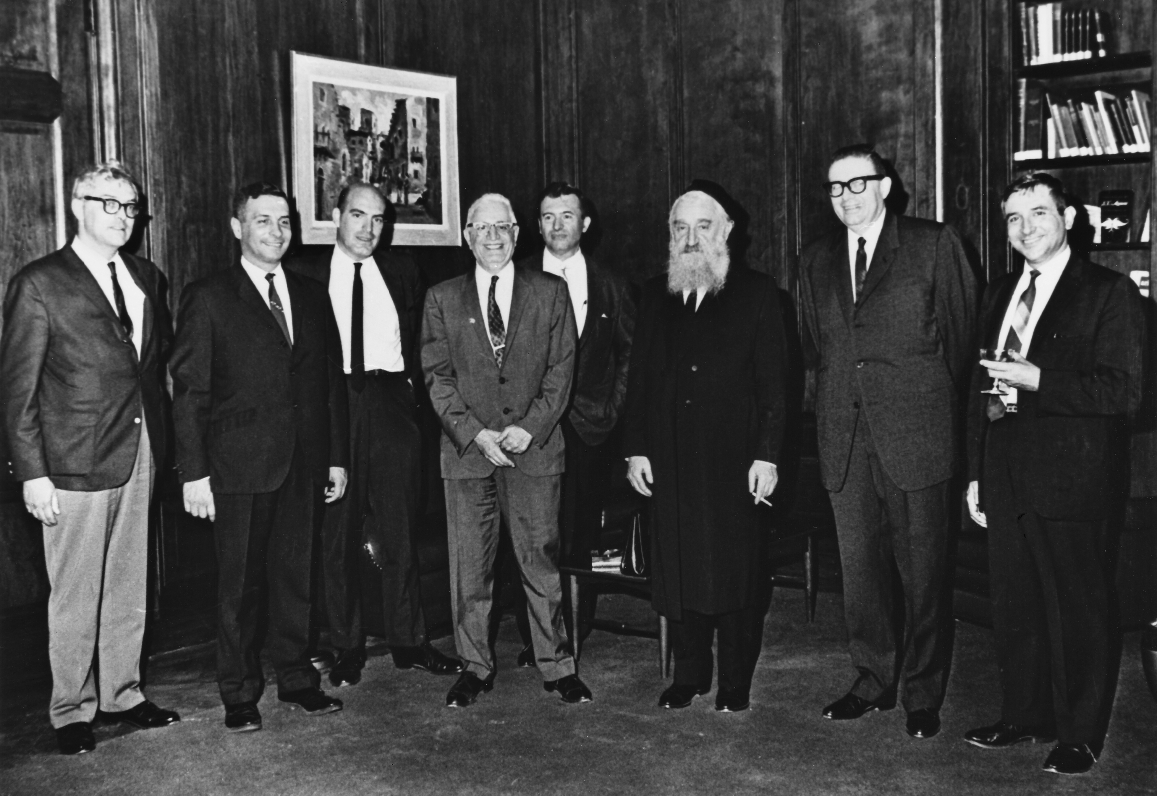 Ceremony at Israeli Consulate in New York to remit the Righteous Among the Nations medal to the Sousa Mendes family that had been awarded in 1966 by Yad Vashem. Left to right: Sebastião Mendes, Luis-Filipe Mendes, Harry Izratty, Moïse Elias, César Mendes, Rabbi Chaim Kruger, Israeli Consul Michael Aron, John Paul Abranches.